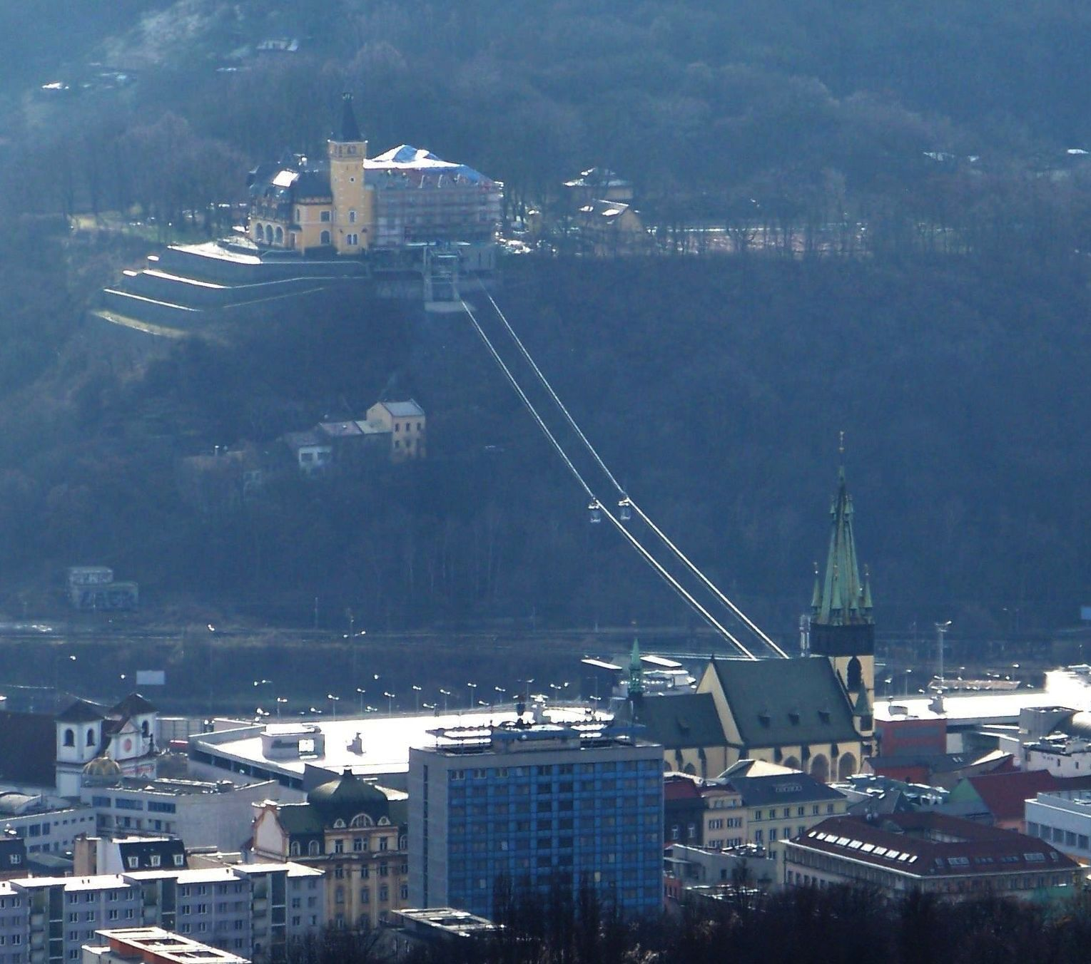 Ústí nad Labem, the Czech Republic. A view from the observation tower Erbenova vyhlídka. - Google Maps - Google Earth